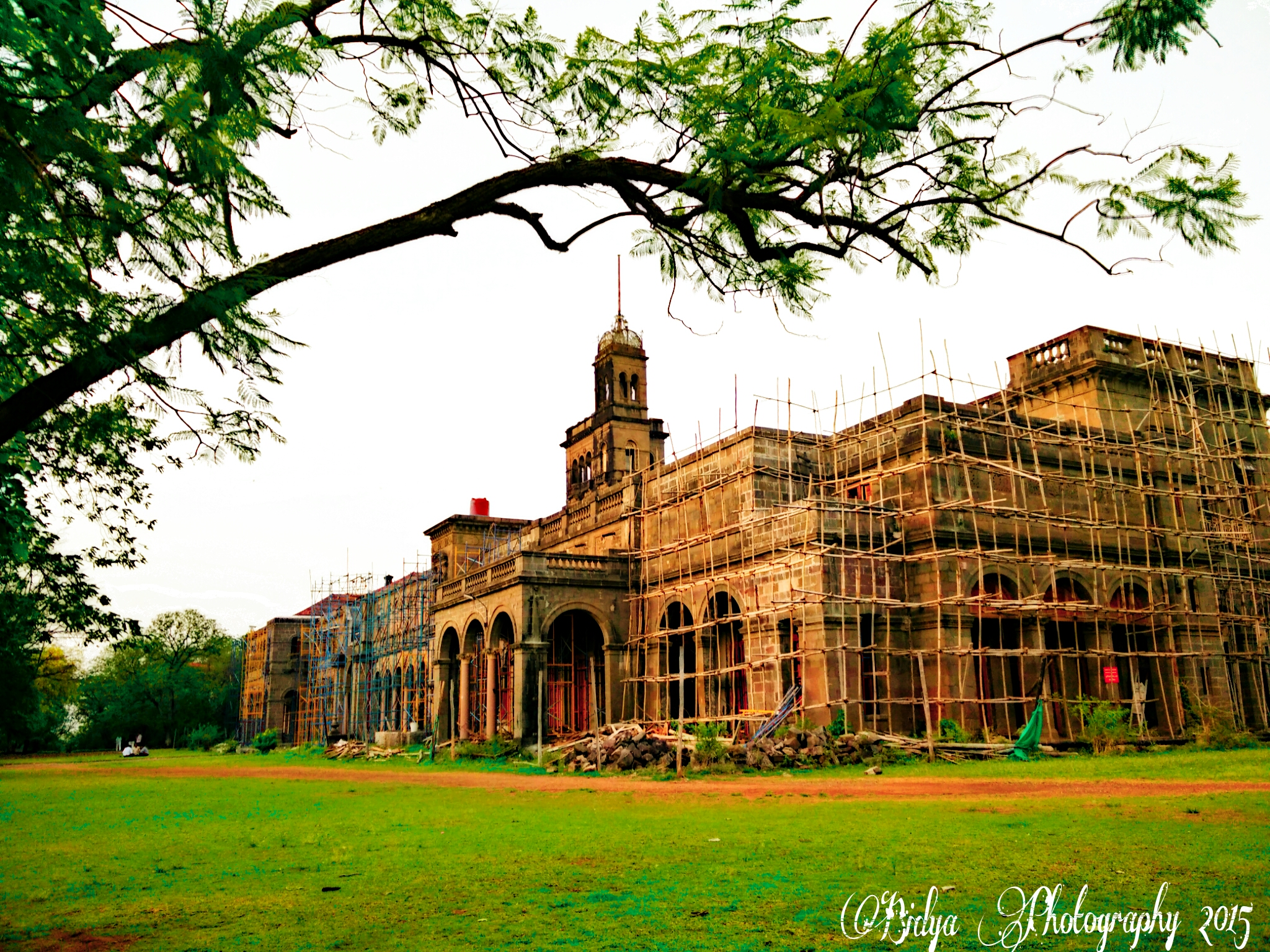 Pune University or now Savitribai Phule Pune University's main building which once used to be residence of British Governor of Bombay Presidency